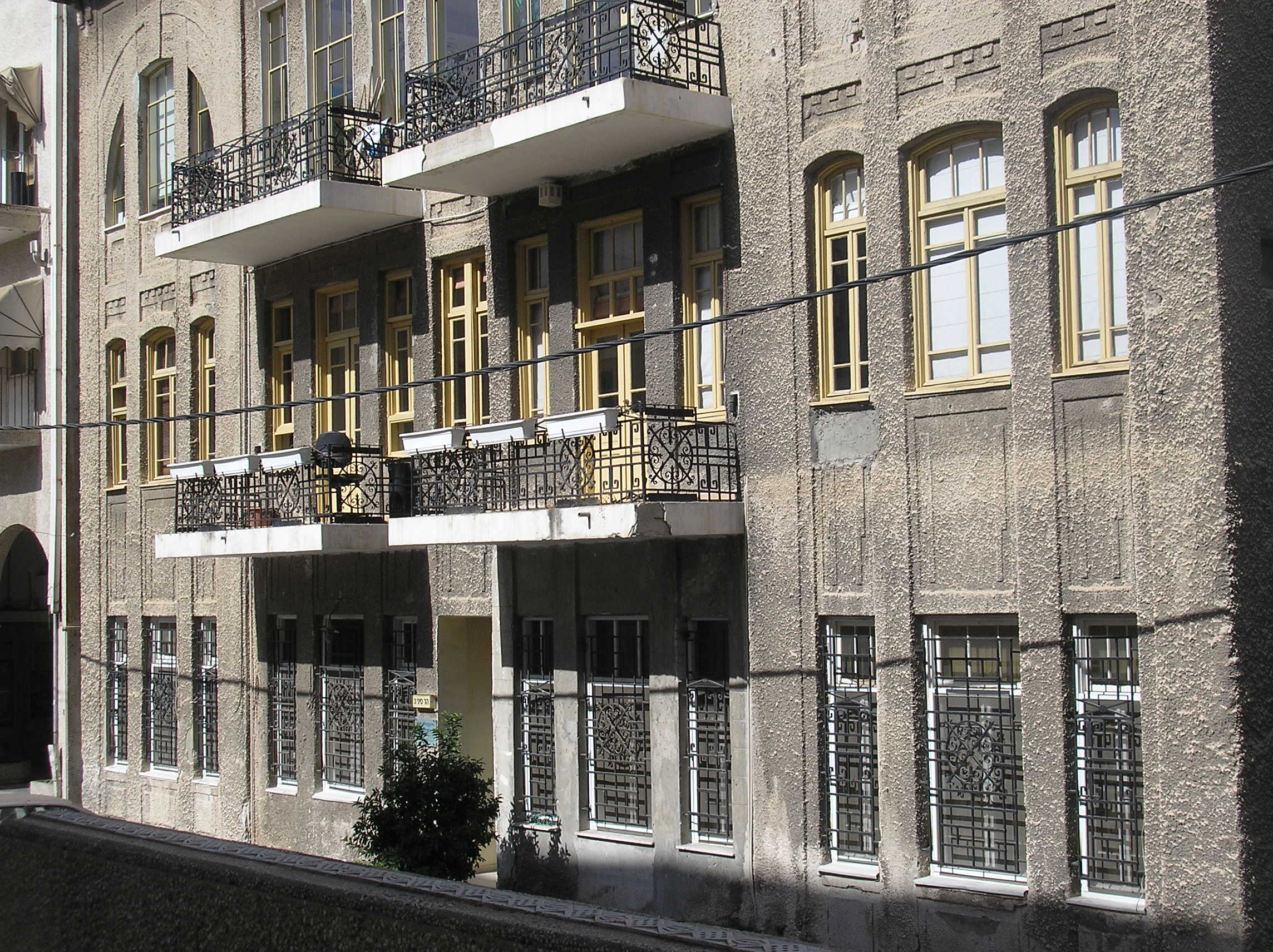 Tel Aviv's Great Synagogue - the square around the Synagogue